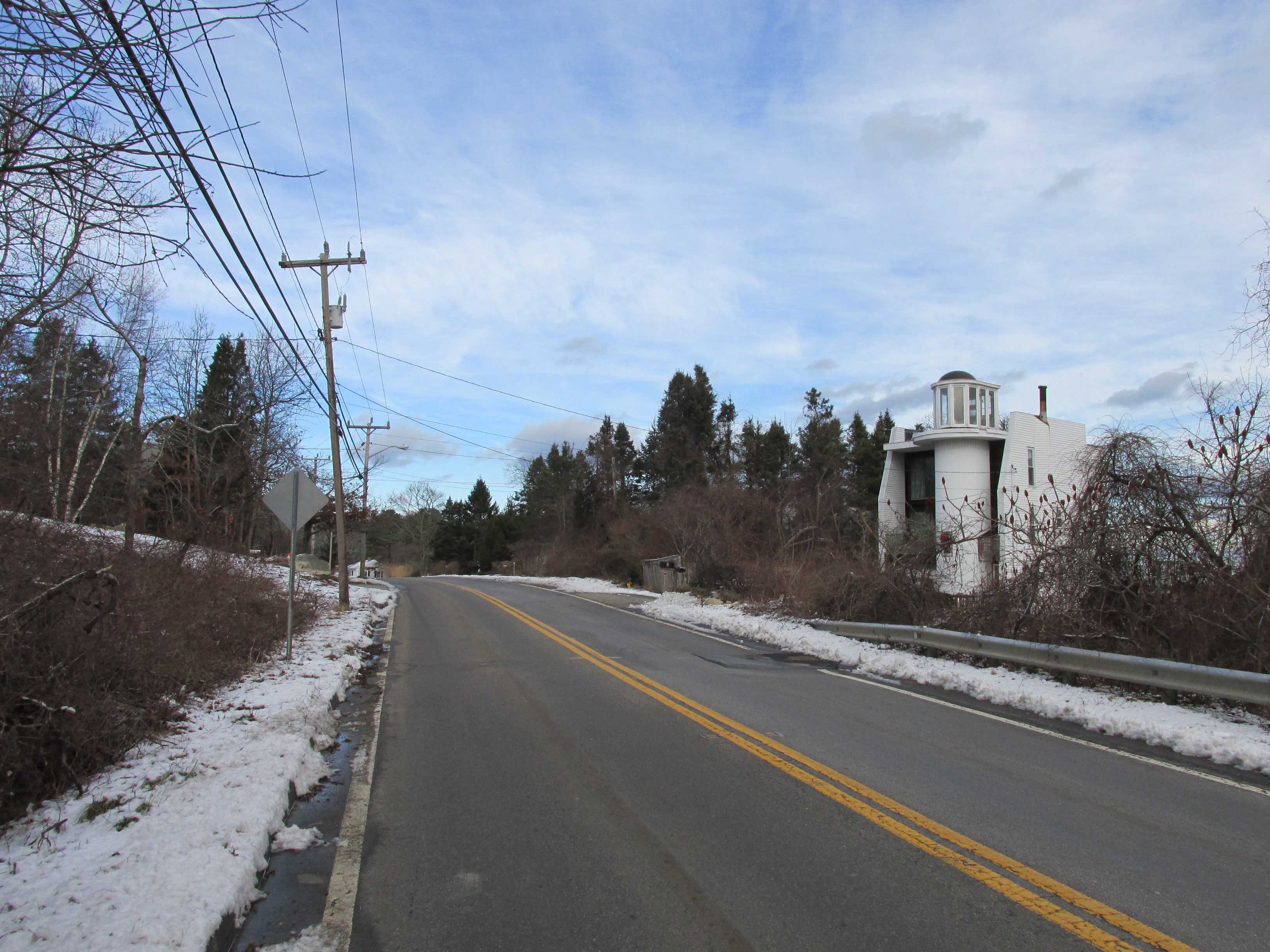 Massachusetts Route 3A northbound, Plymouth Massachusetts